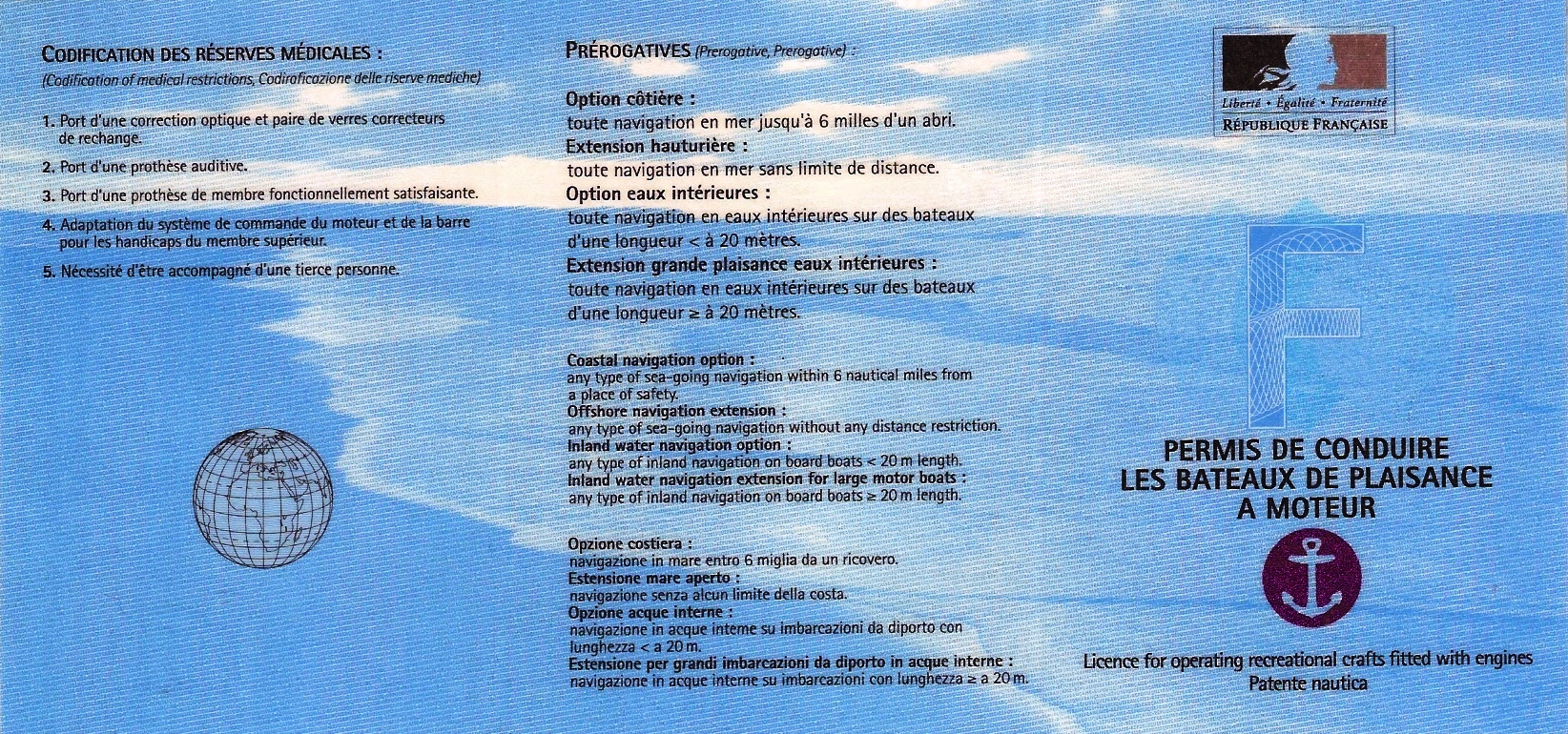 License pleasure boats motor. Permit issued in France.